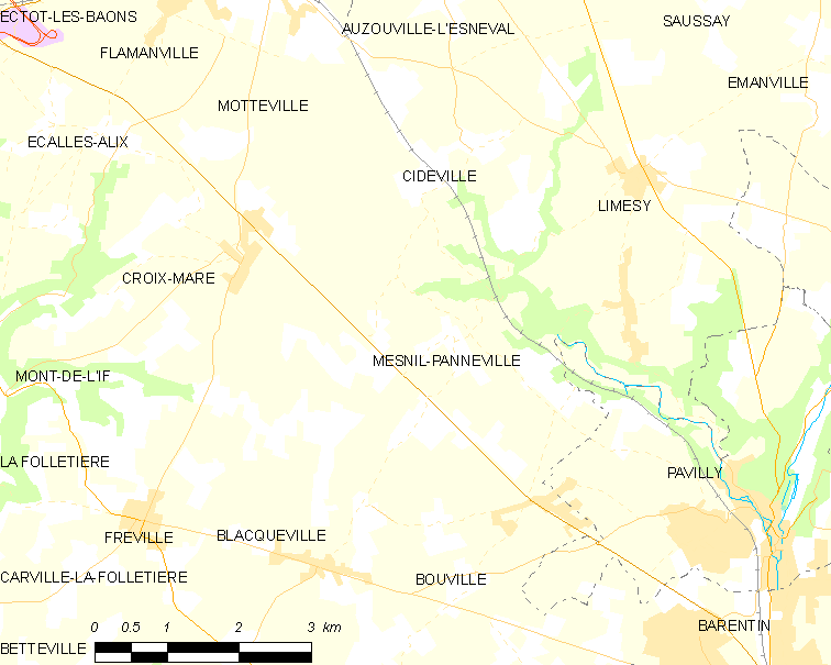 Map of French municipality Mesnil-Panneville